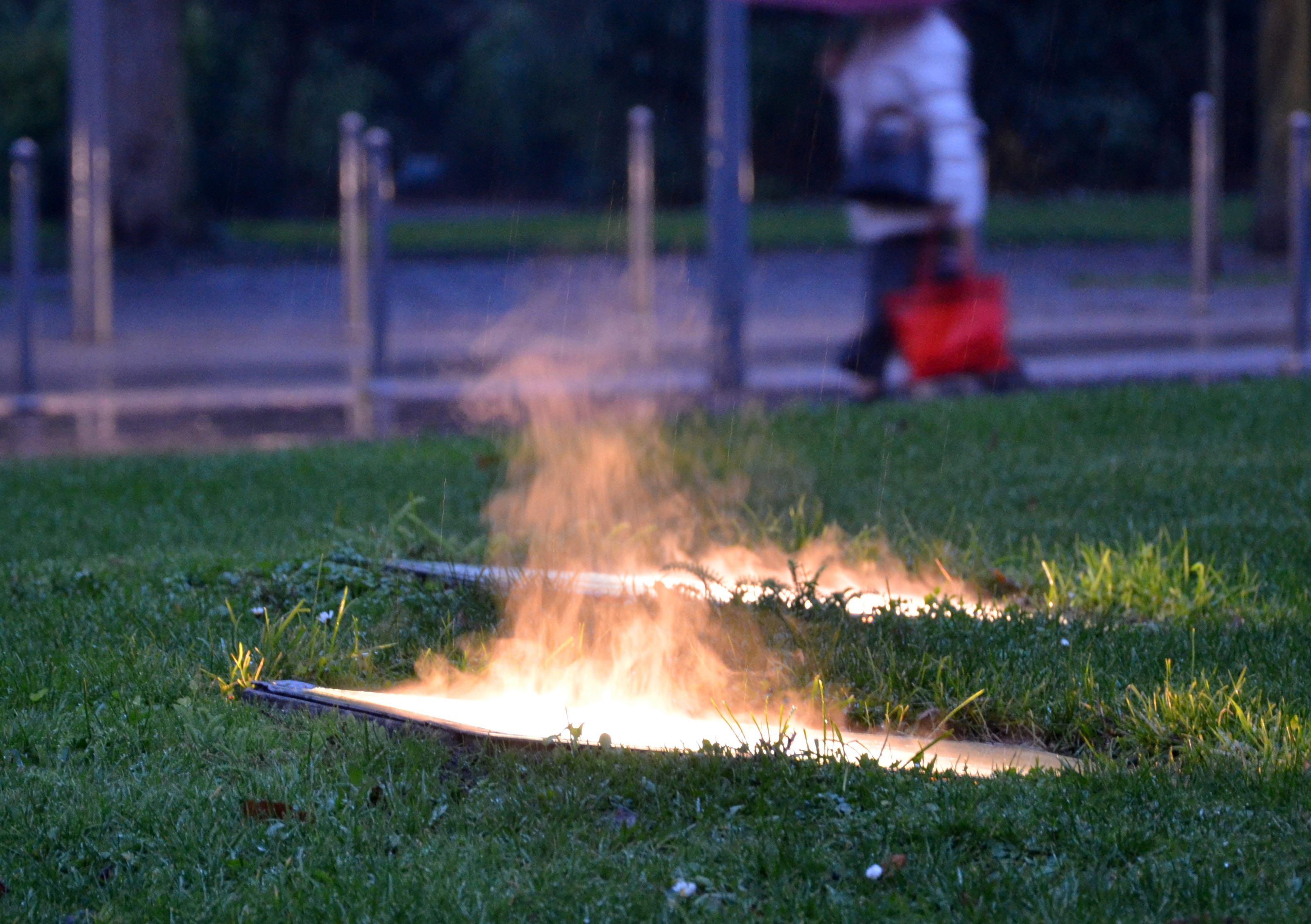 Recessed lighting fixture in the soil, and evaporation of the rain under the effect of heat. This type of lamp is a source of light pollution, contributing to urban and halos tends to be replaced by LEDs, which waste less electricity.